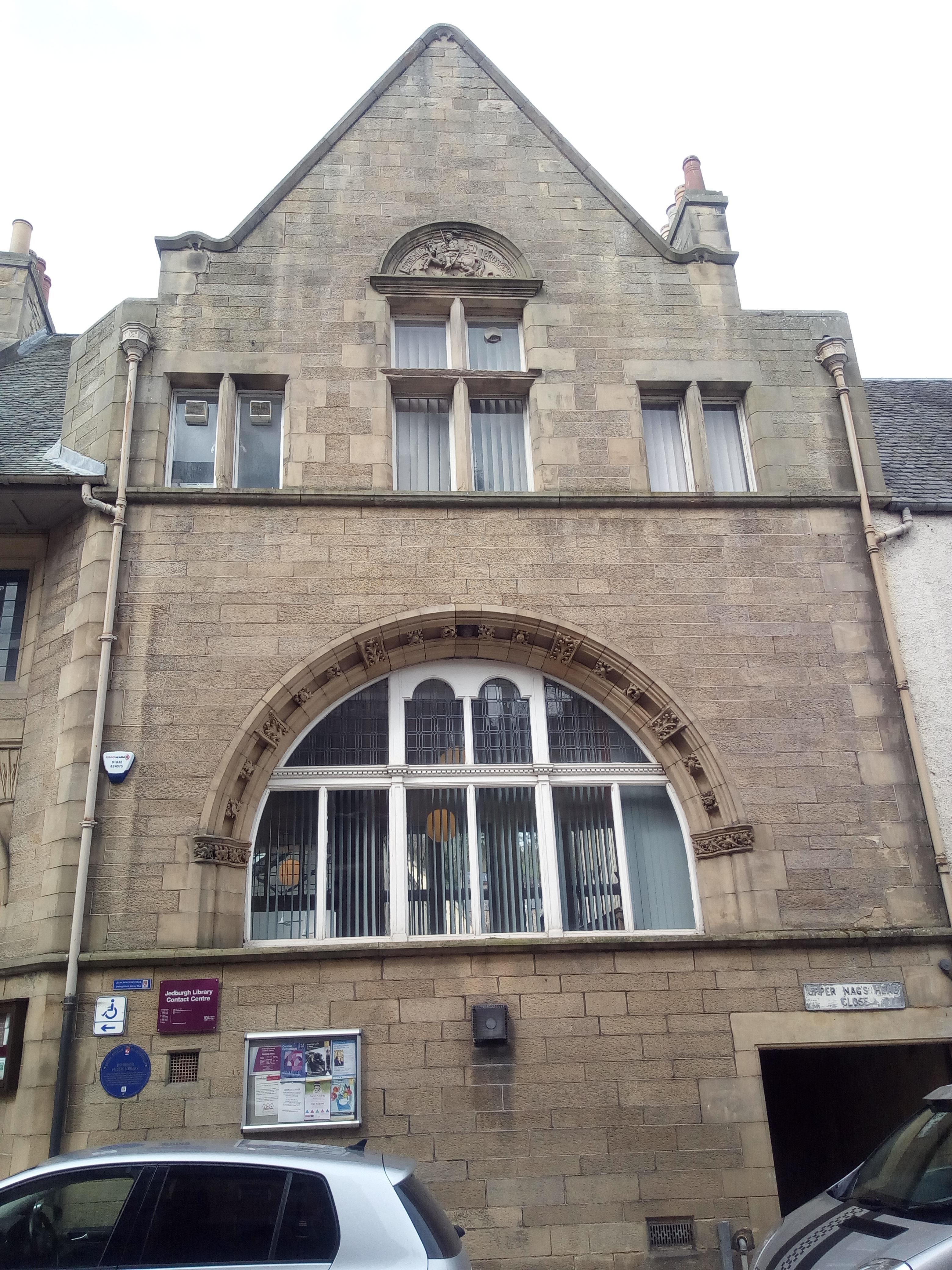 Jedburgh Library 2018